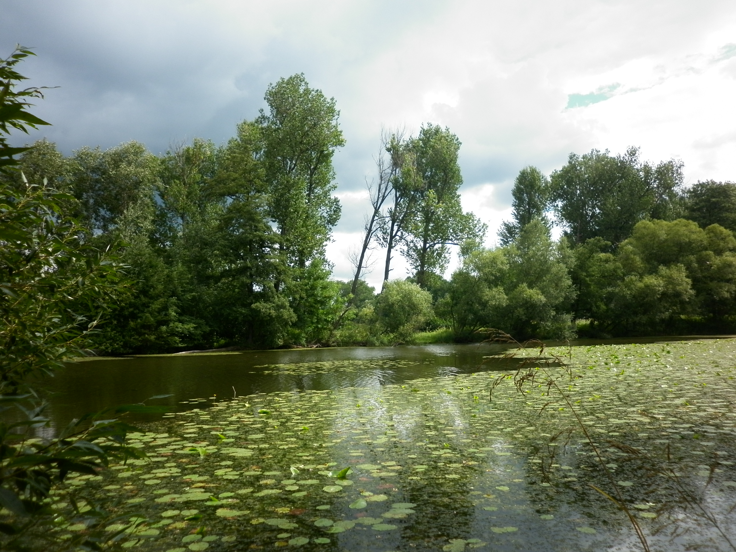 Natural monument "Mělické labiště" in Pardubice District, Czech Republic. Old river channel of Elbe with typical plant and animal species. Water surface covered with Nuphar lutea .